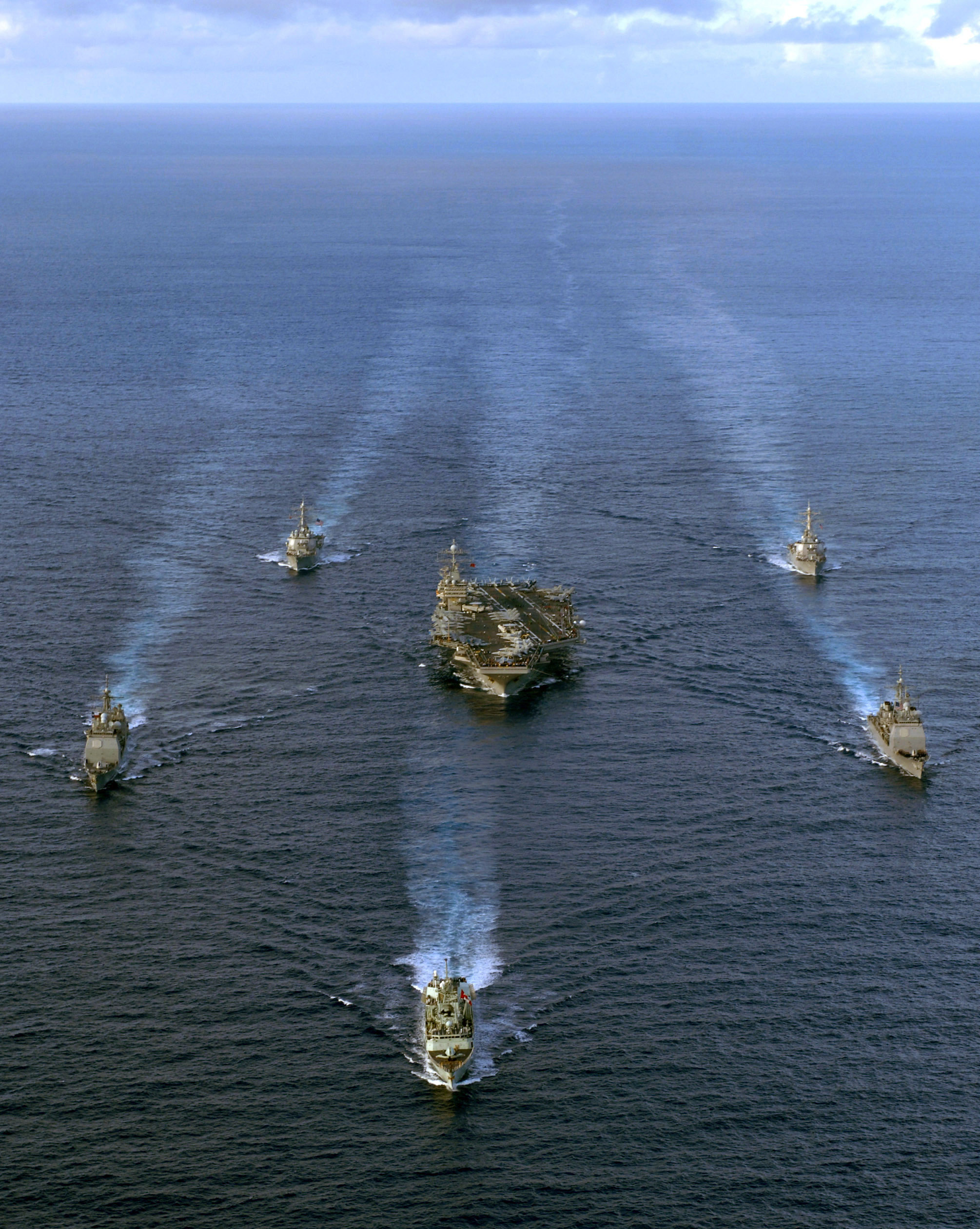 ATLANTIC OCEAN (Nov. 12, 2007) - Harry S. Truman Strike Group 10, made up of USS San Jacinto (CG 56), USS Hue City (CG 66), USS Harry S. Truman (CVN 75), Canadian frigate HMCS Charllottetown (FFH 339), USS Carney (DDG 64), and USS Oscar Austin (DDG 79), perform a multi-ship maneuvering exercise. The strike group is en route to the Central Command area of responsibilty as part of the ongoing rotation to support maritime security operations in the region. U.S. Navy photo by Mass Communication Specialist Seaman Justin Lee Losack (RELEASED)